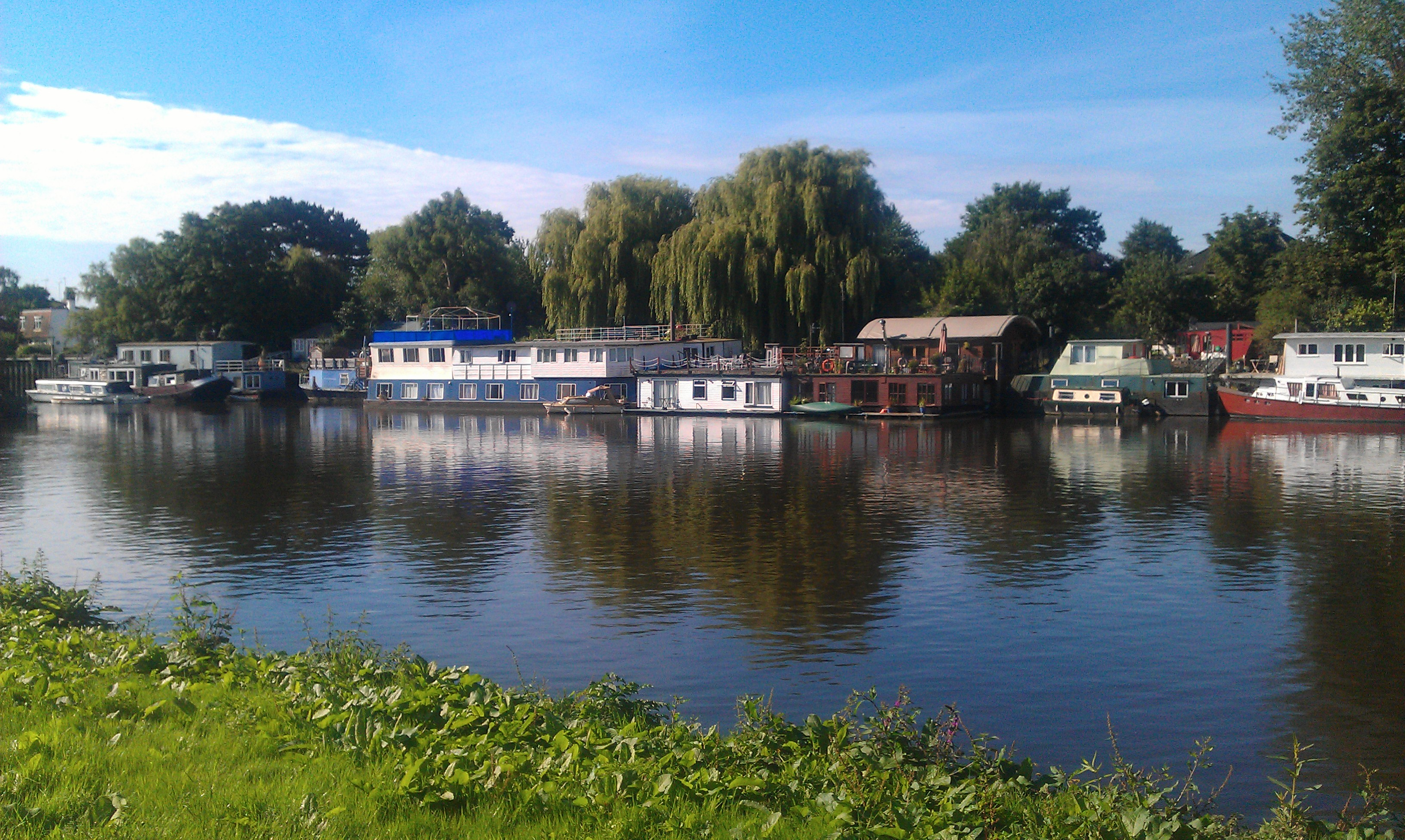 Houseboats on Thames river in Richmond - Surrey - UK